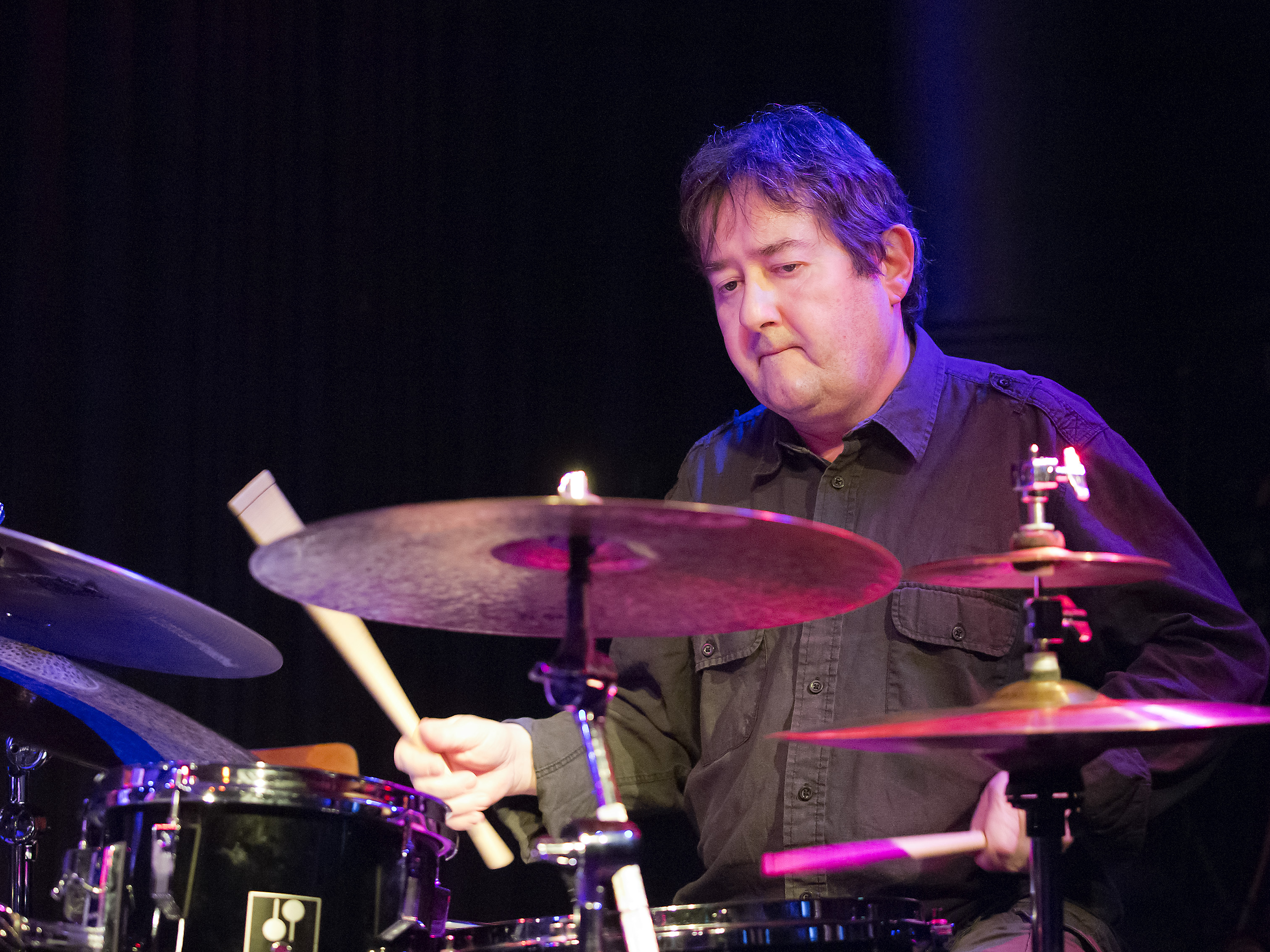 Marcel Papaux, Jazz drummer; Picture taken in Jazz Club Unterfahrt, Munich/Bavaria